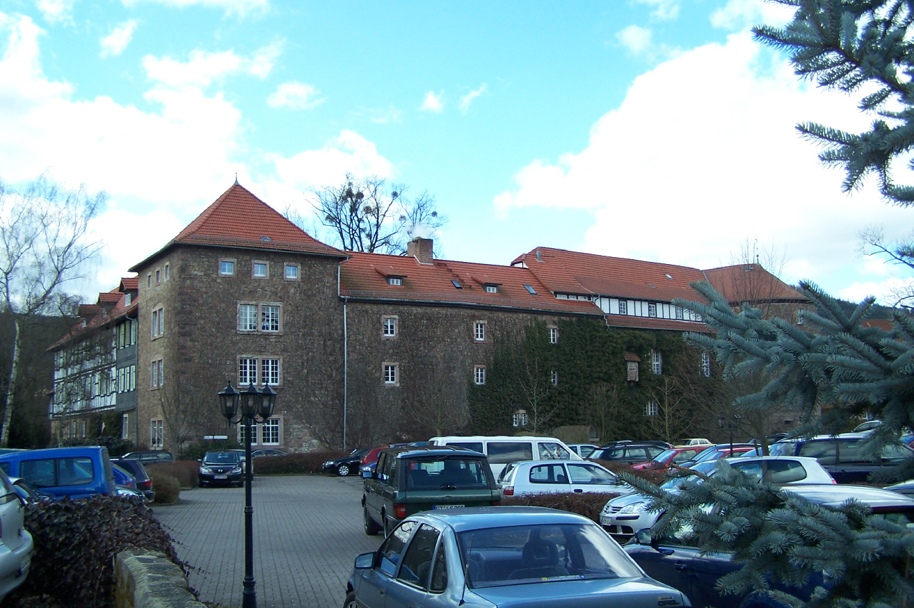 The castle in Stadtlengsfeld.